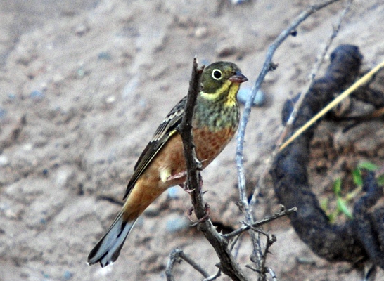 "Ortolan"...Own work. Kurdî: Li Çemê Aslanoxlî hatiye kişandin.